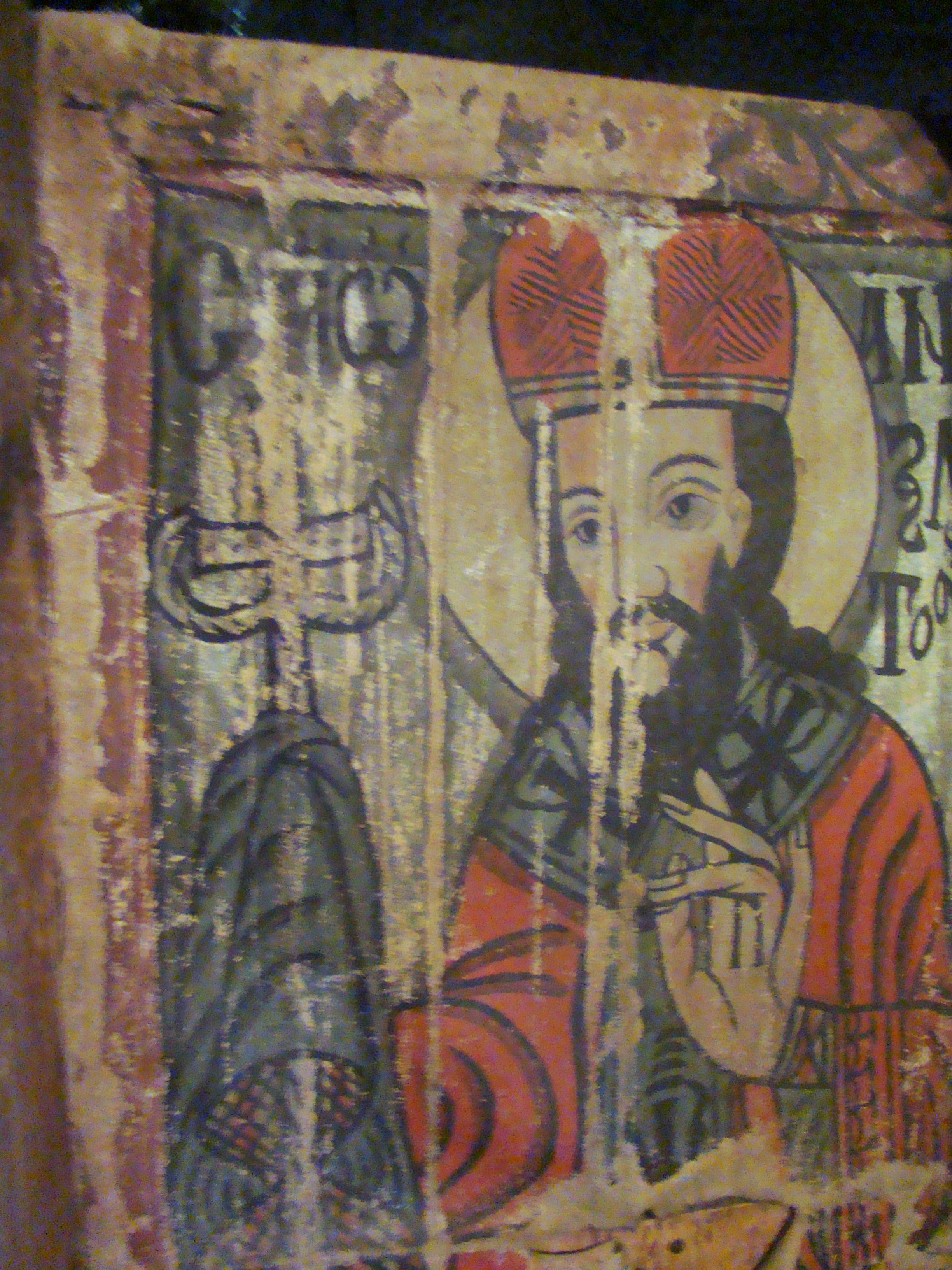 Wooden church in Lugașu de Sus, Bihor county, Romania